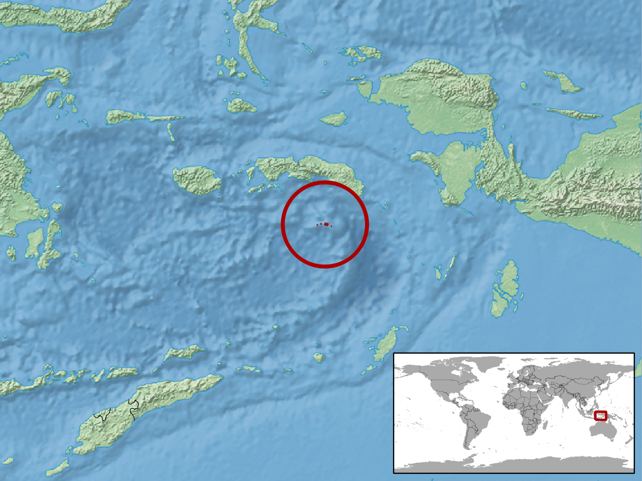 geographic distribution of Gehyra barea (Native: Indonesia)